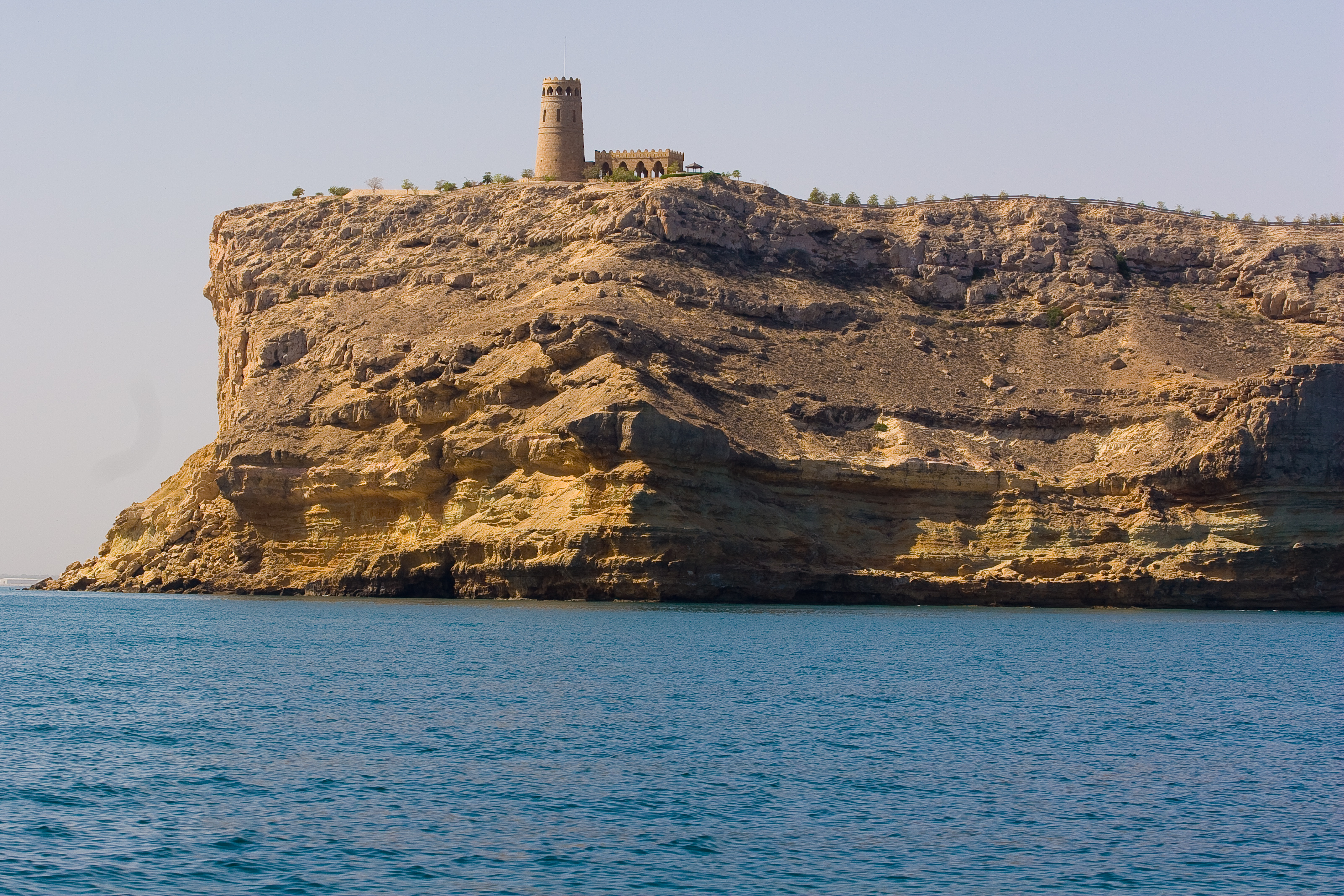 Sawadi Islands, main island Jabal ‘Add, eastern side, with watchtower and steep cliffs